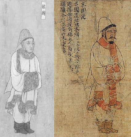 Qiemo from periodical offering paintings 6-7th centuries AD.